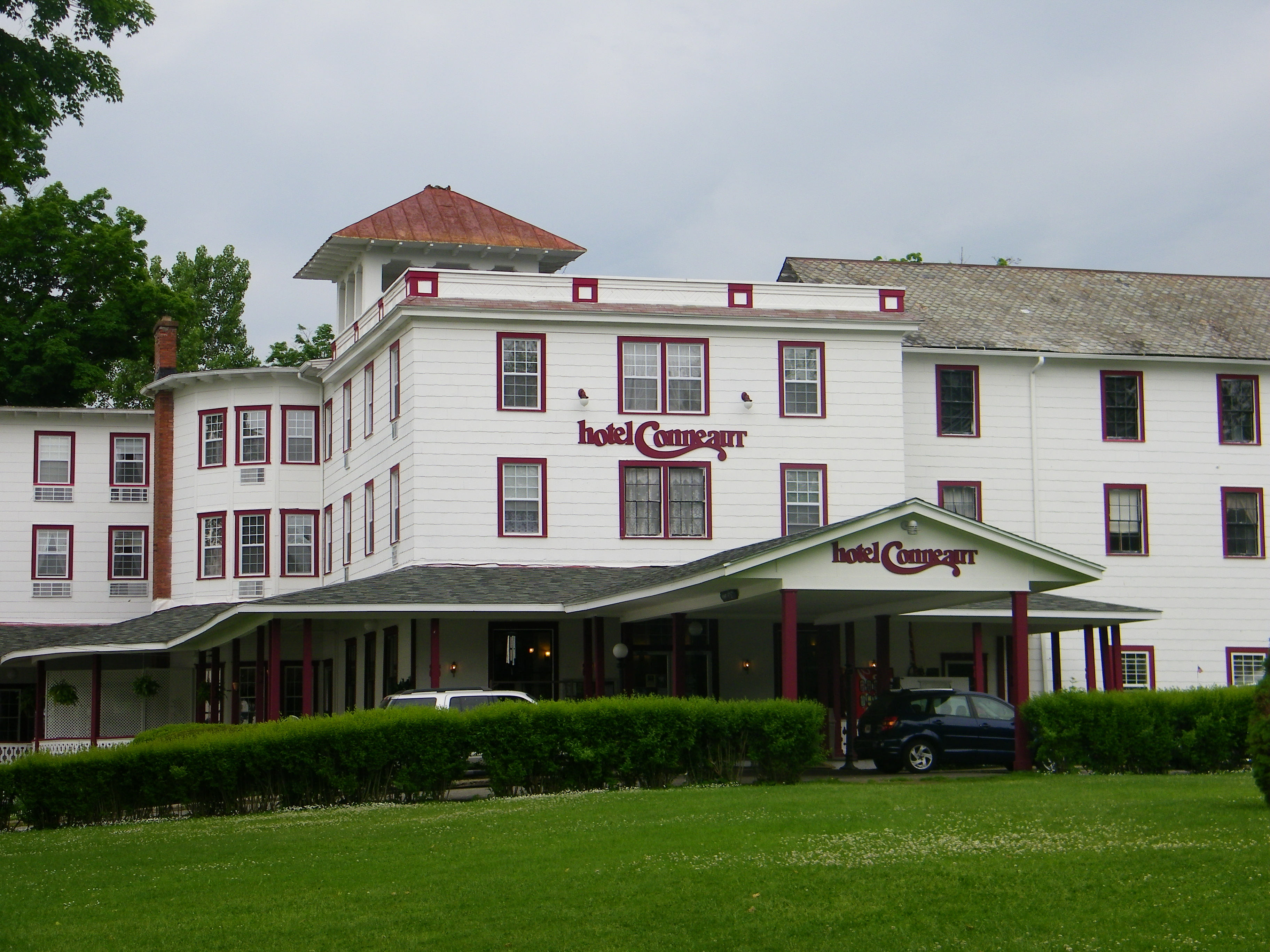 Conneaut Lake Park. We visited recently to see where my wife spent many summer weekends. There has just been another attempt to rescue the park. Lots of work ahead.